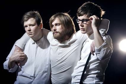 Swedish pop group They Live by Night.